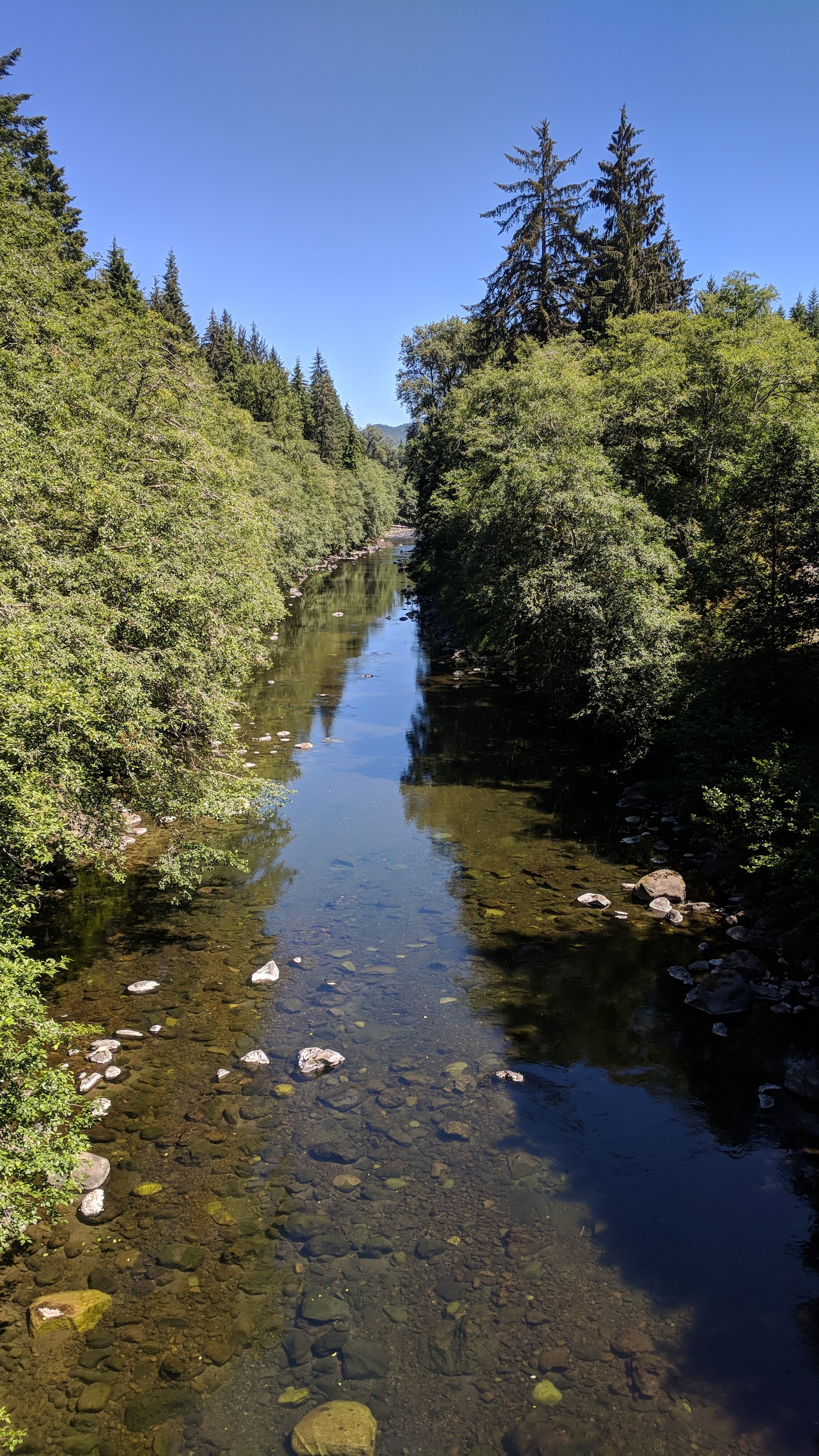 The Calawah River, a tributary of the Bogachiel and Quillayute, looking upstream from the Highway 101 bridge